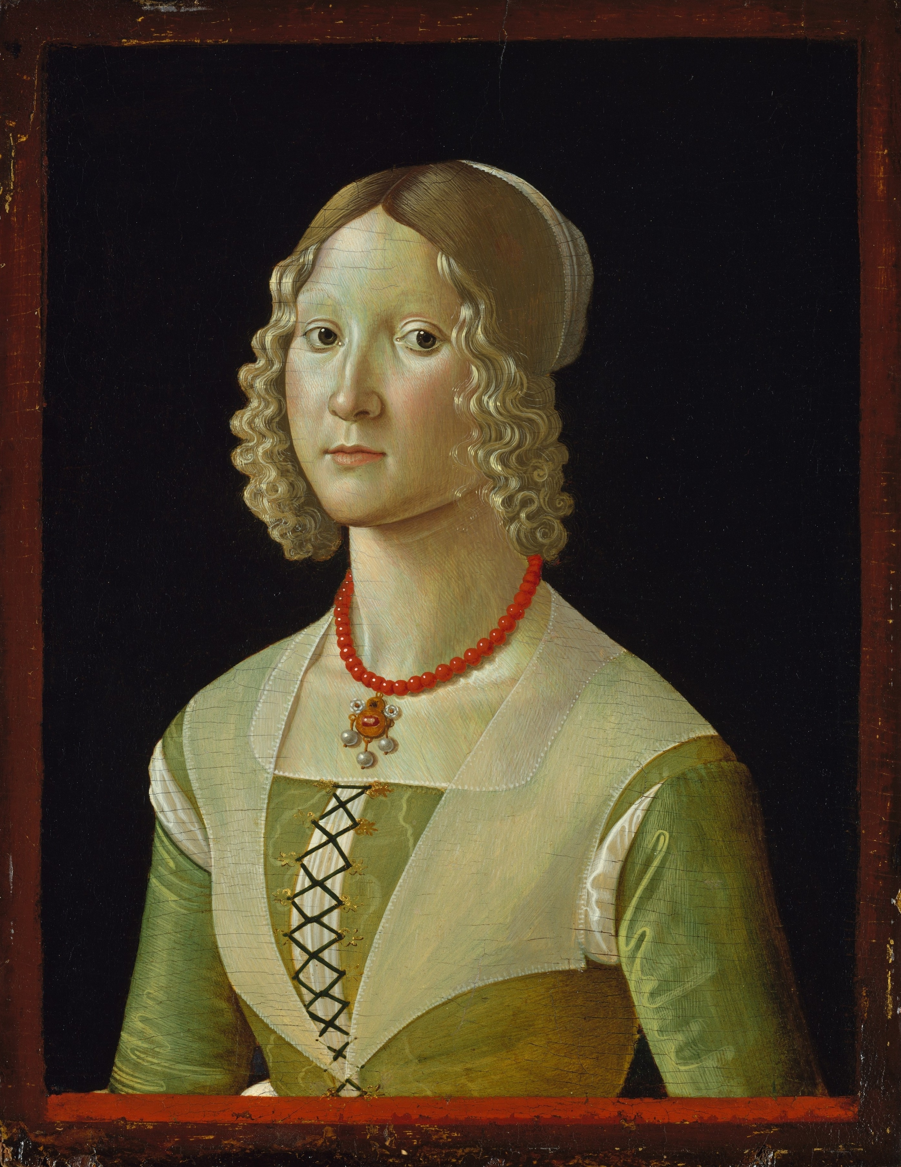 the background was originally blue